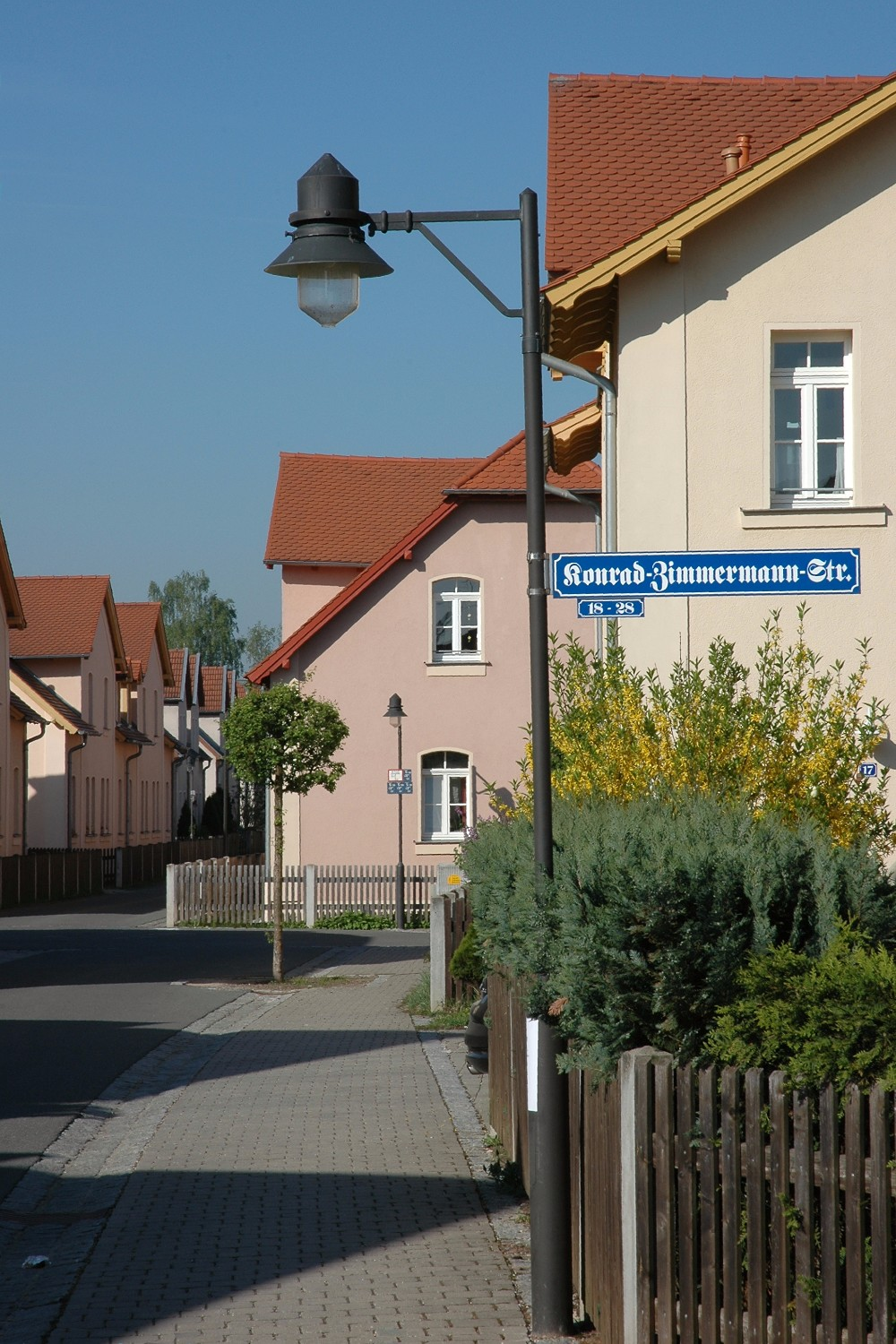 Historic Conradty working-class district at Röthenbach an der Pegnitz, Germany